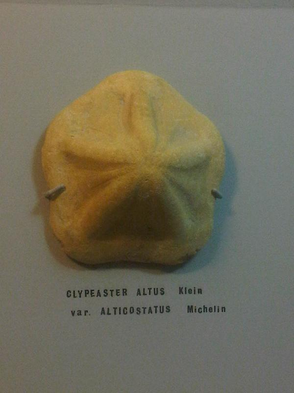 Clypeaster sanchezi altus - syn: Clypeaster altus var. alticostatus at the National Museum of Natural History, Vilhena Palace, Republic of Malta.